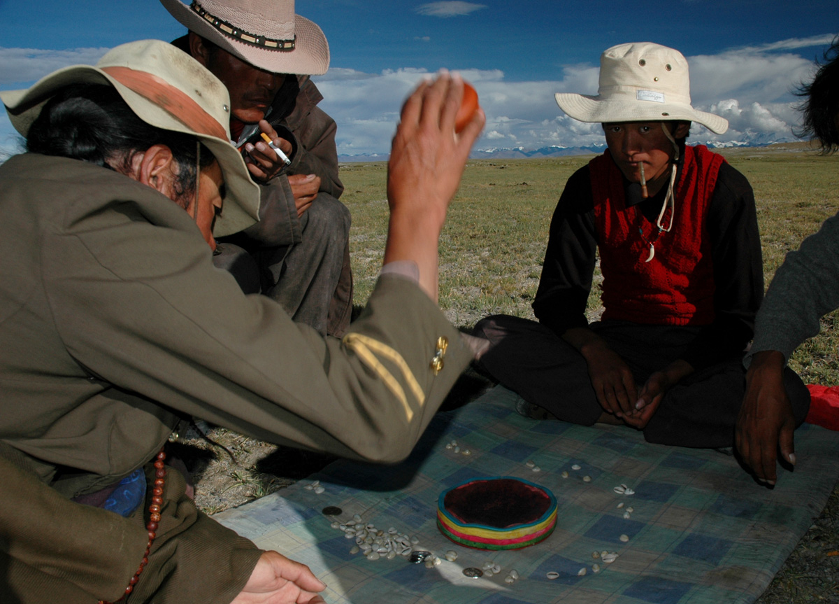 Tibetans playing the dice game called "Sho"